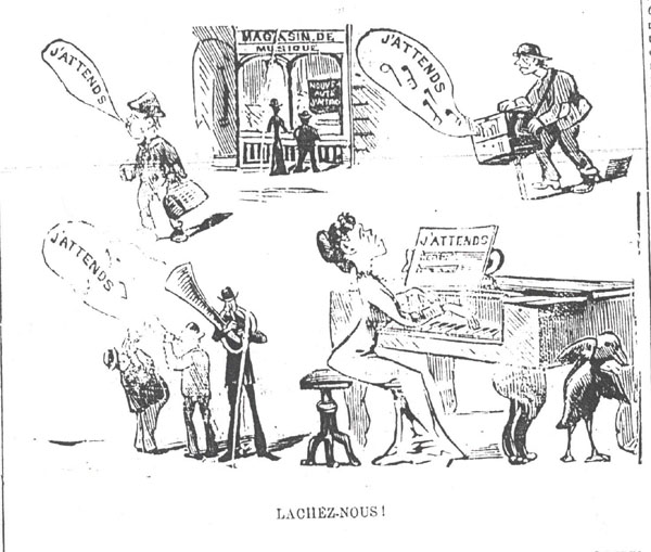 Comic strip "J'attends!", printed in Le Canard, (September 22, 1883). Unsigned « J'attends! ». -- Montréal, A. Filiatreault & Cie. -- (22 septembre 1883). -- v. ill. 35 cm. -- ISSN 0702-276X. -- Couverture